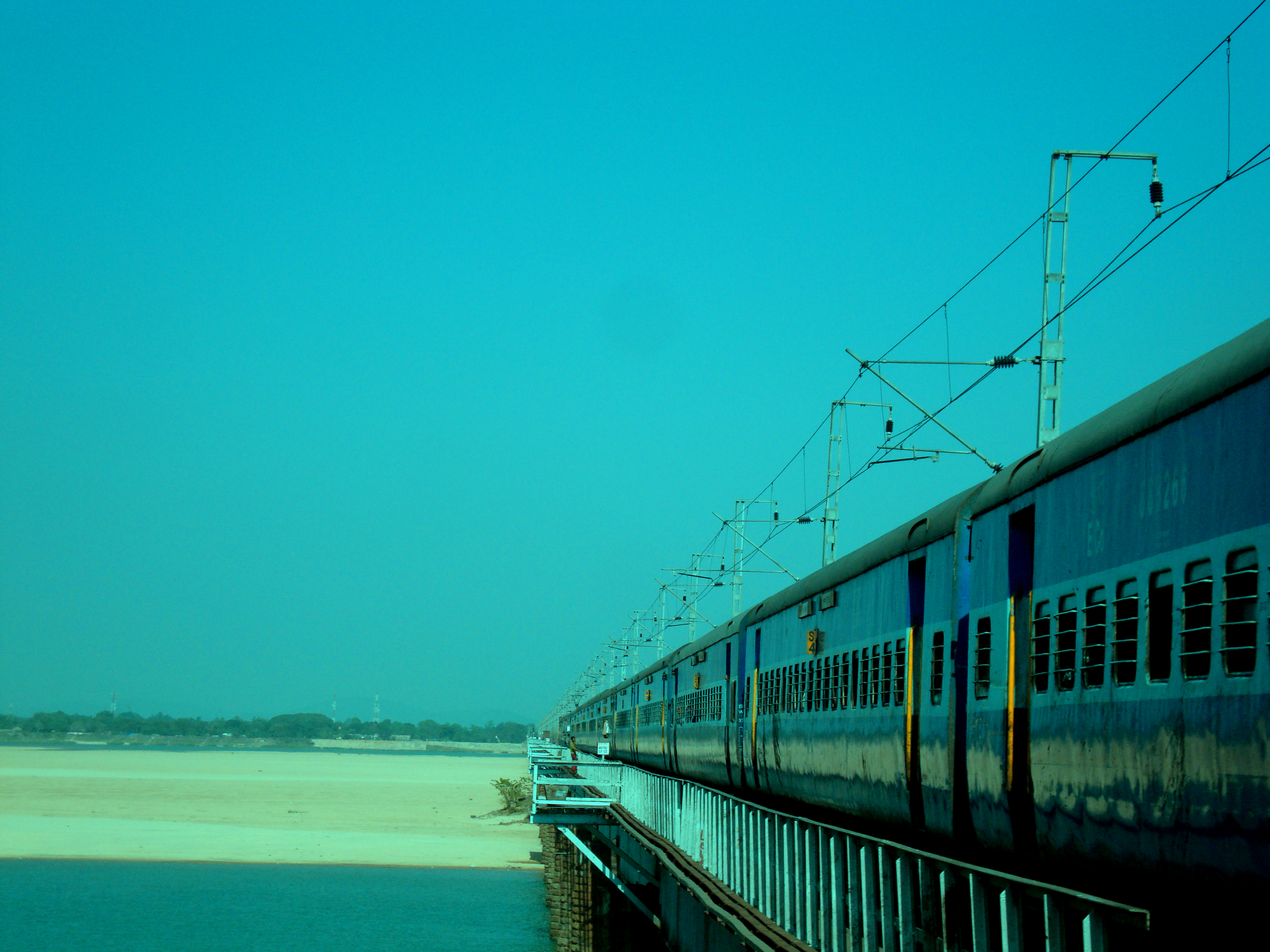 Barrage near mahanadi vihar cuttack